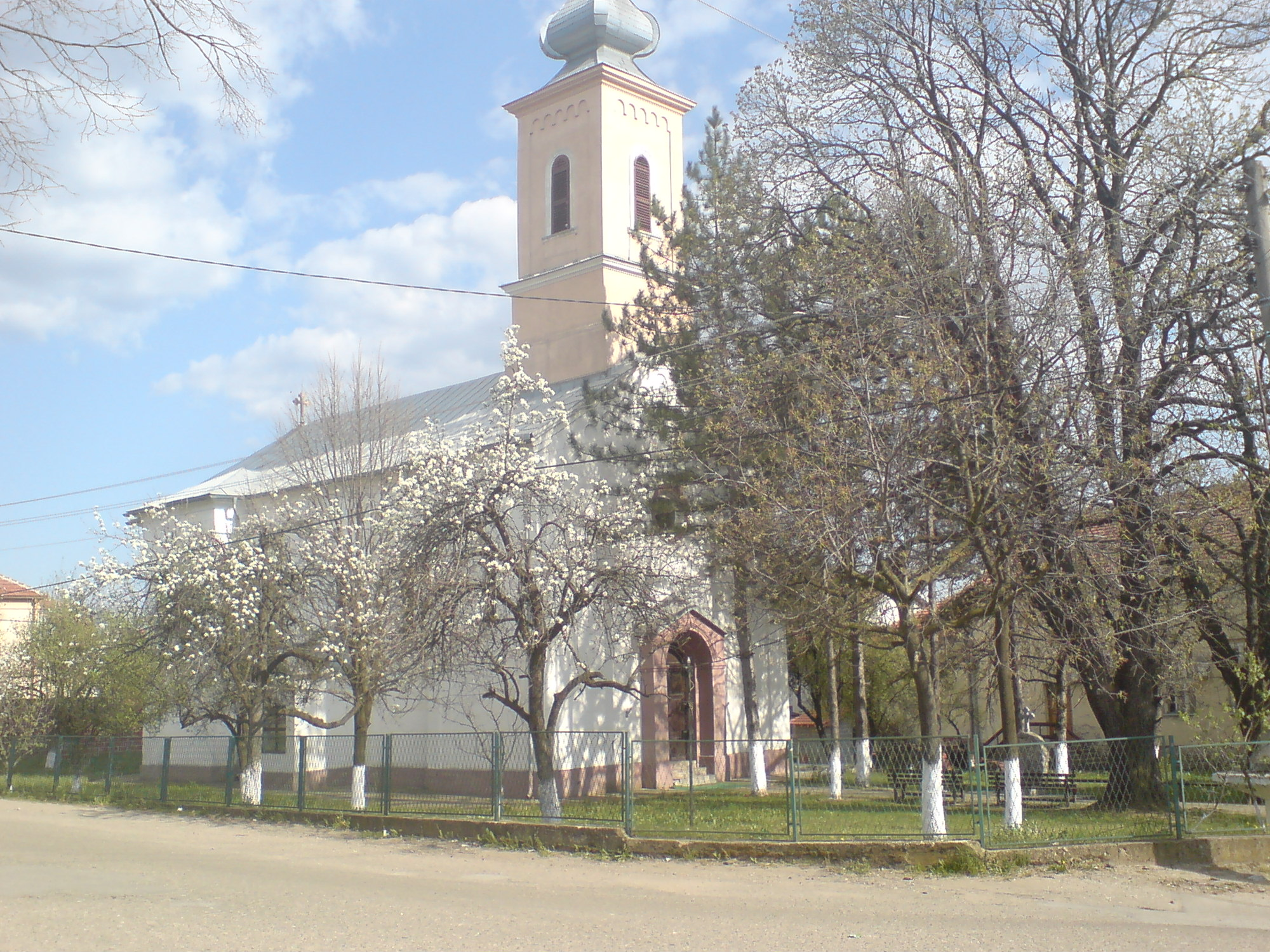 Church in Jabukovac